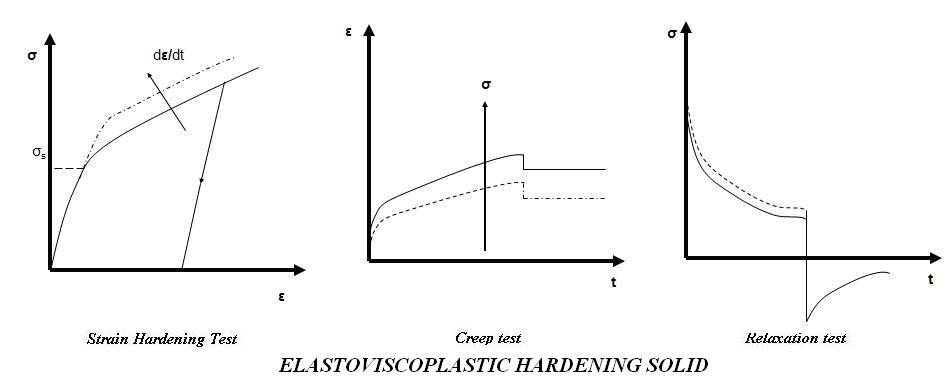 This was done on Power Point Presentation.